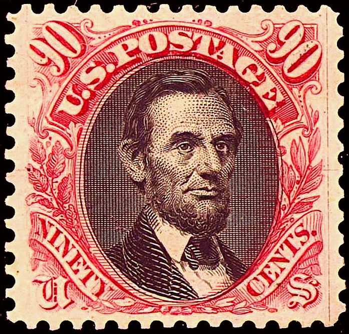 US Postage stamp: Lincoln, 1869 issue, 90c, black and red